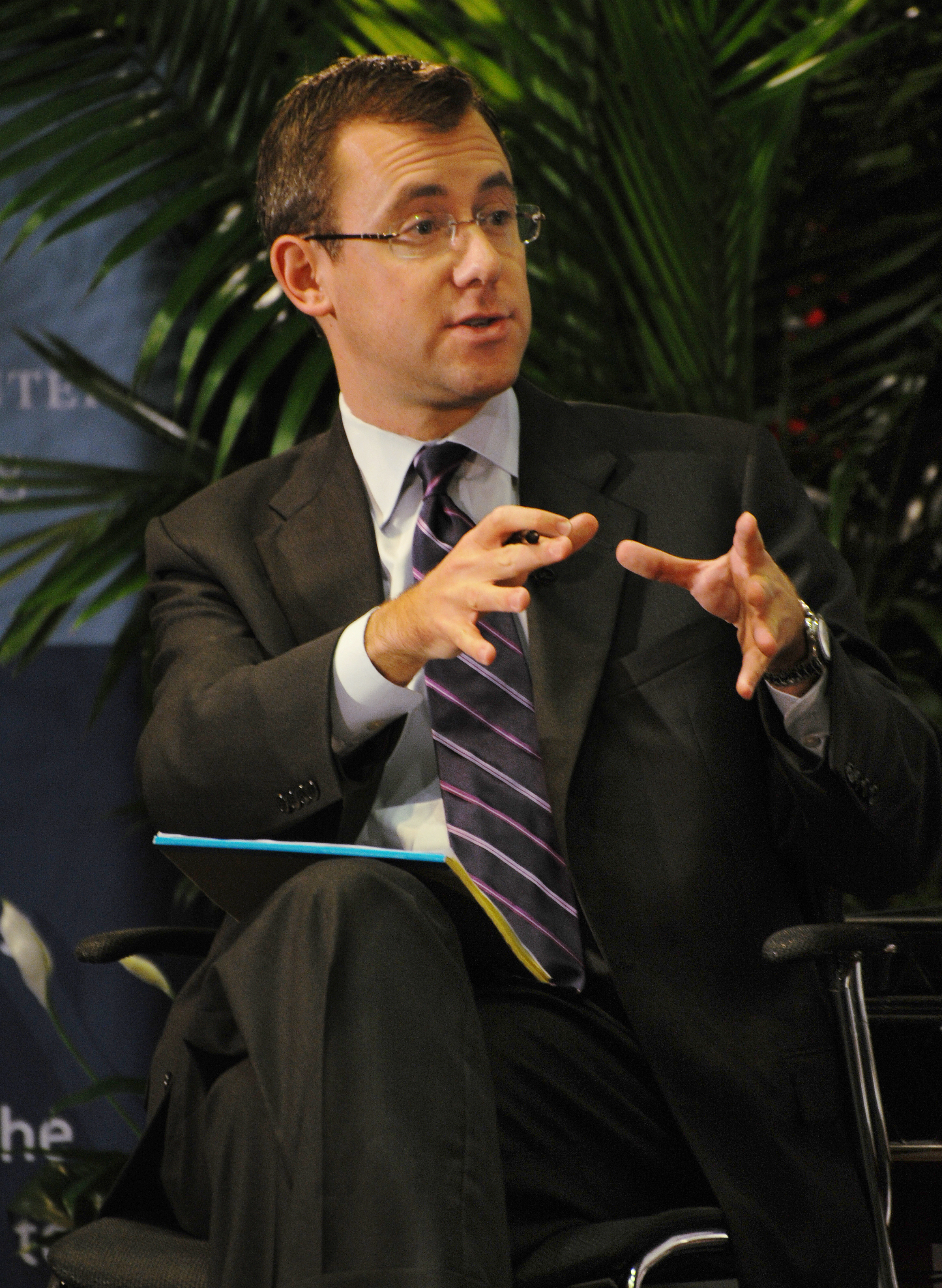 Bipartisan Policy Bipartisan Policy; November 10, 09 Jeff Zeleny